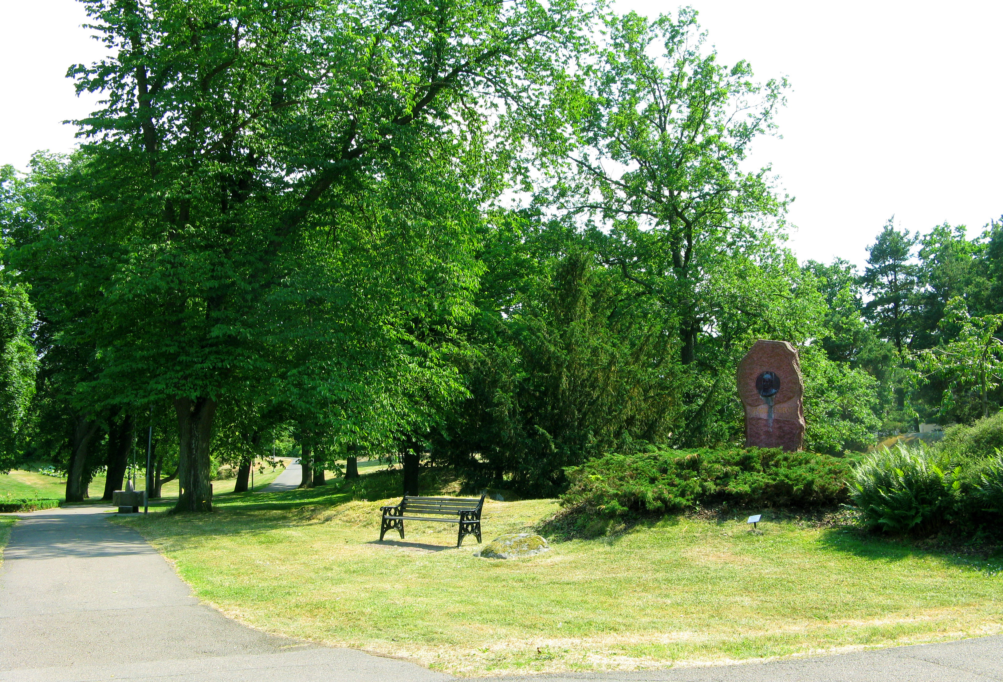 Part of Oskarshamns Stadspark (literally Oskarshamn City Park) in Sweden, showing a monument to ryttmästare ("Rittmeister") Johan Fredrik Hultenheim (1802–1869) whose land the city acquired for the construction of the park.